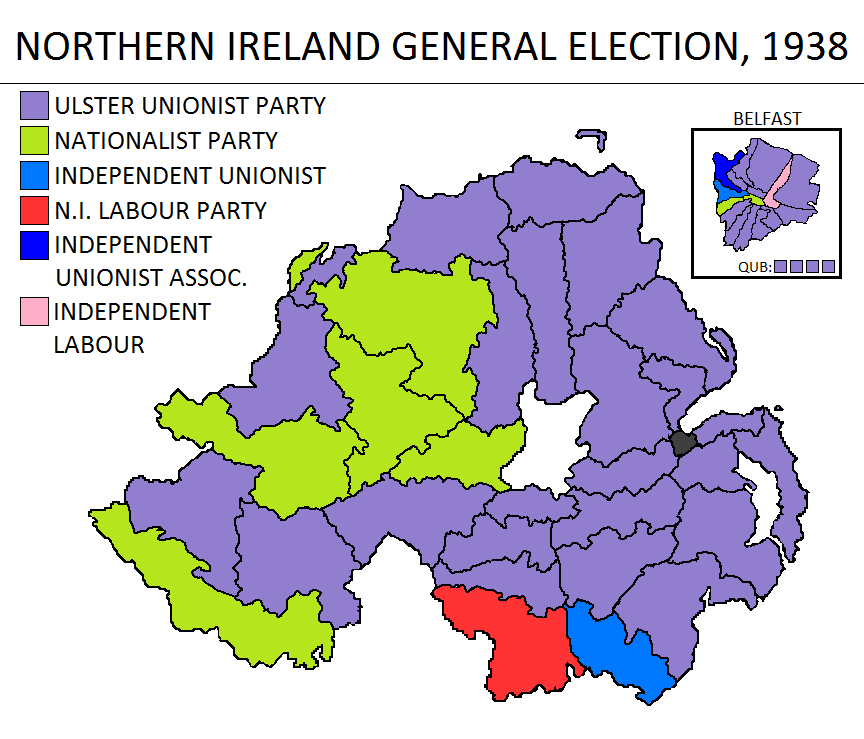 Map showing result of the 1938 Northern Ireland general election.